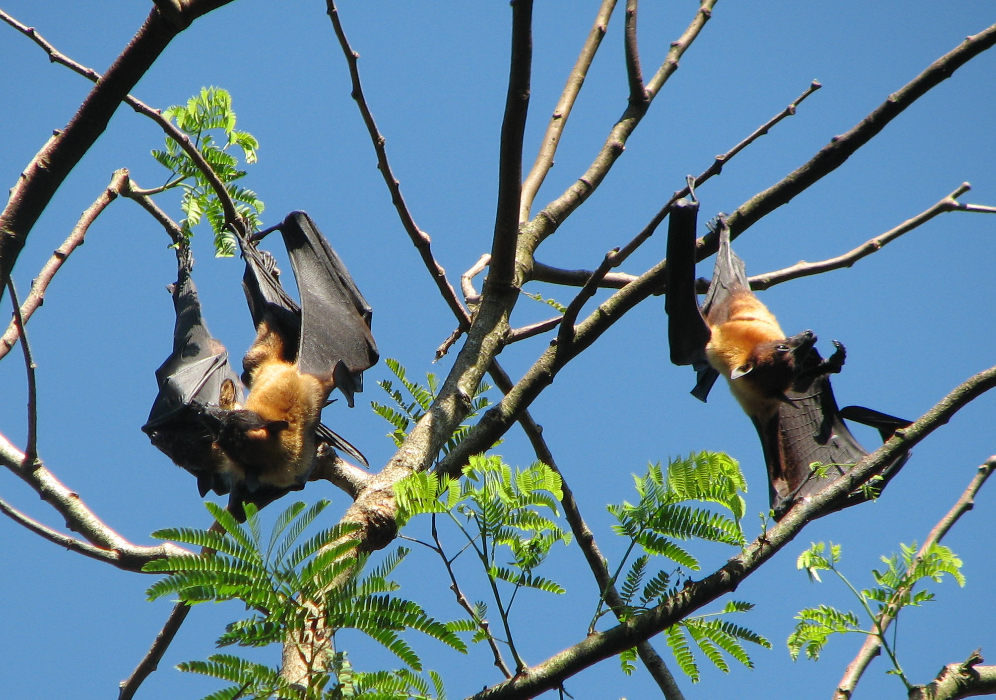 Indian Flying Fox (Pteropus giganteus) at Botanical Garden of Peradeniya, Sri Lanka